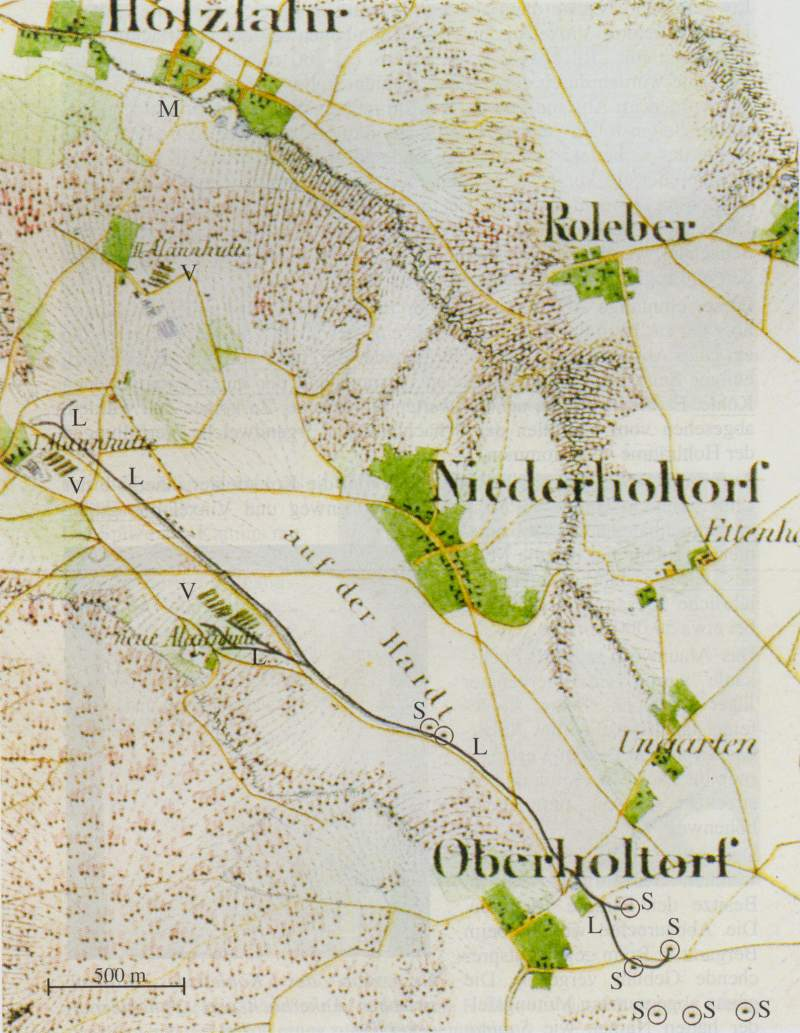 Map of alum works at Hardt, Bonn, in midth 19th century.